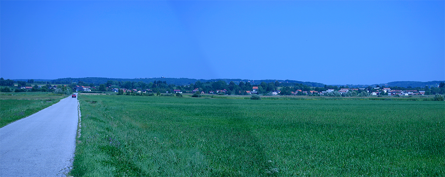 Gorica Slovenia